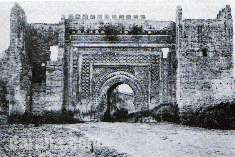 One of the gate of the Mellah (Jewish quarter) of Meknes Morocco